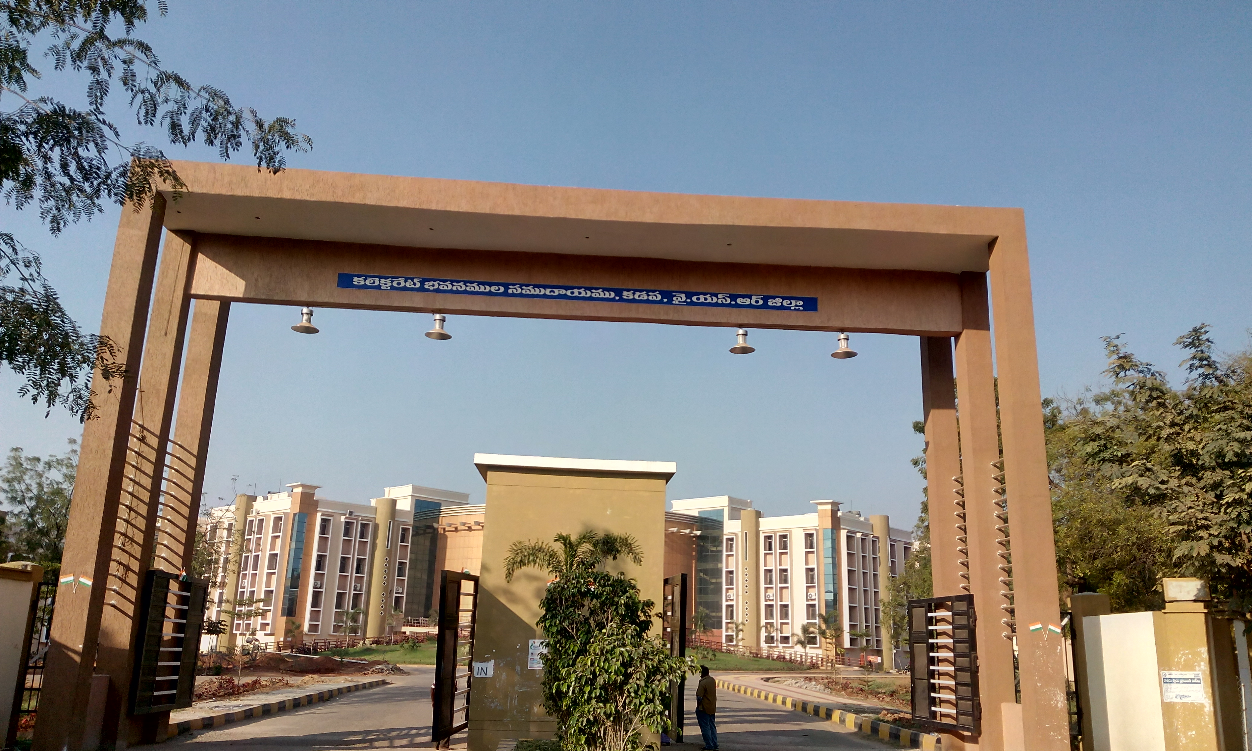 Kadapa collectorate Entrance